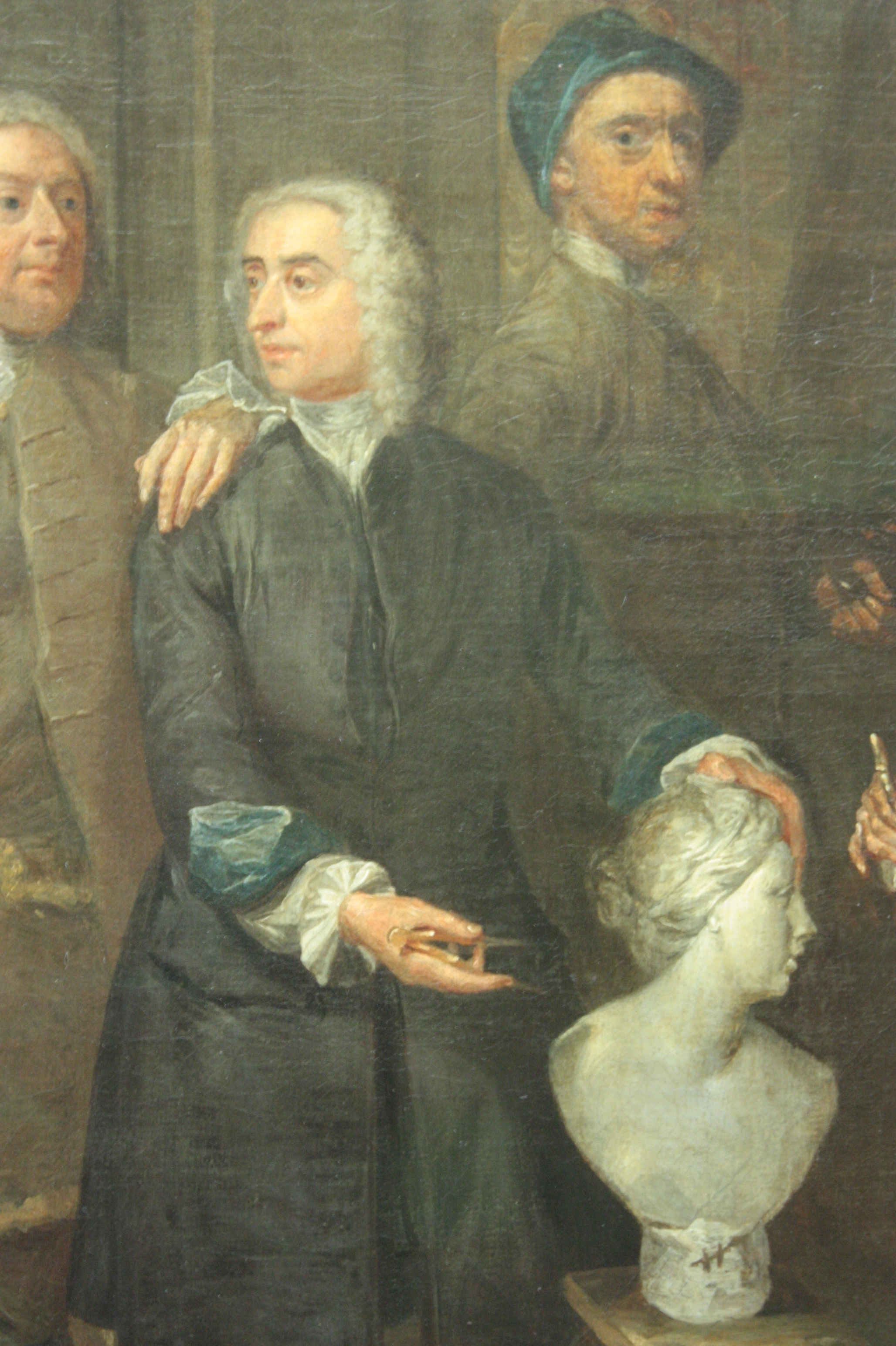 Rysbrack as shown in a detail of "A Club of Artists" by Gawen Hamilton, 1734, National Portrait Gallery, London